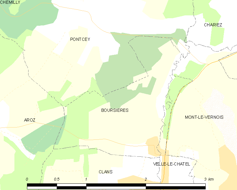 Map of French municipality